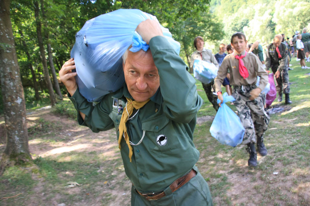 2nd Ukrainian Scout Jamboree 2009. Cleaning up the territory